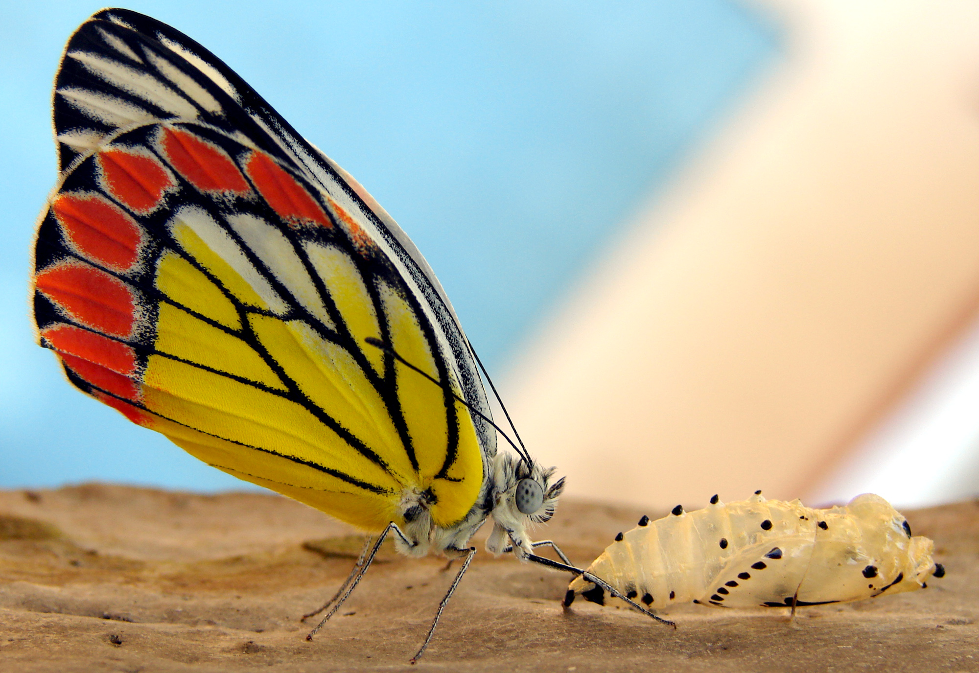 Common Jezebel (Delias eucharis) comes from pupa. Captured in Batticaloa, Sri Lanka